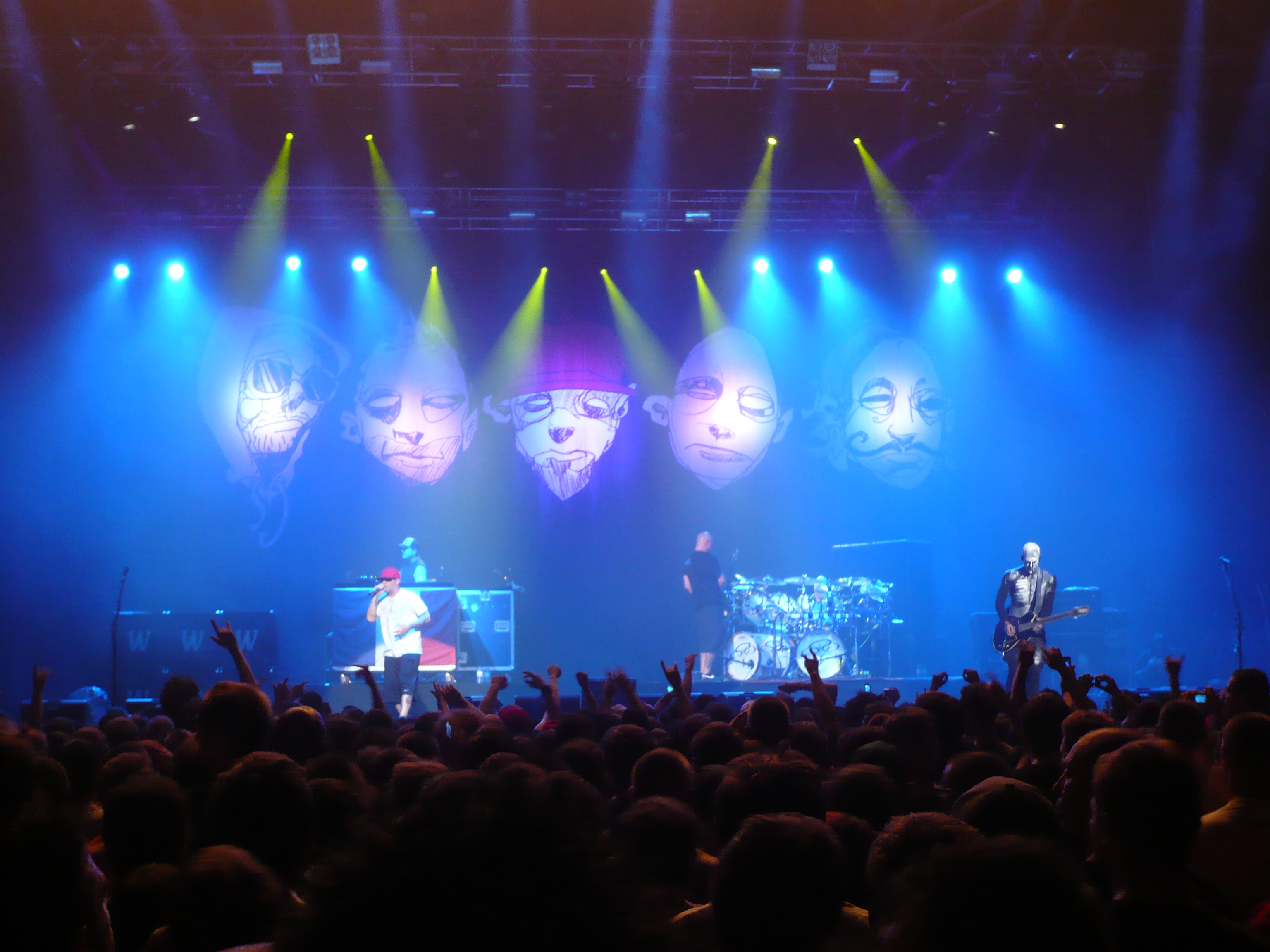 Limp Bizkit 05/07/09 Le Zénith (Paris)